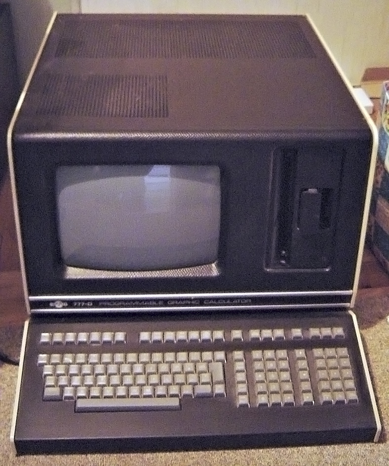 EMG 777-D front view